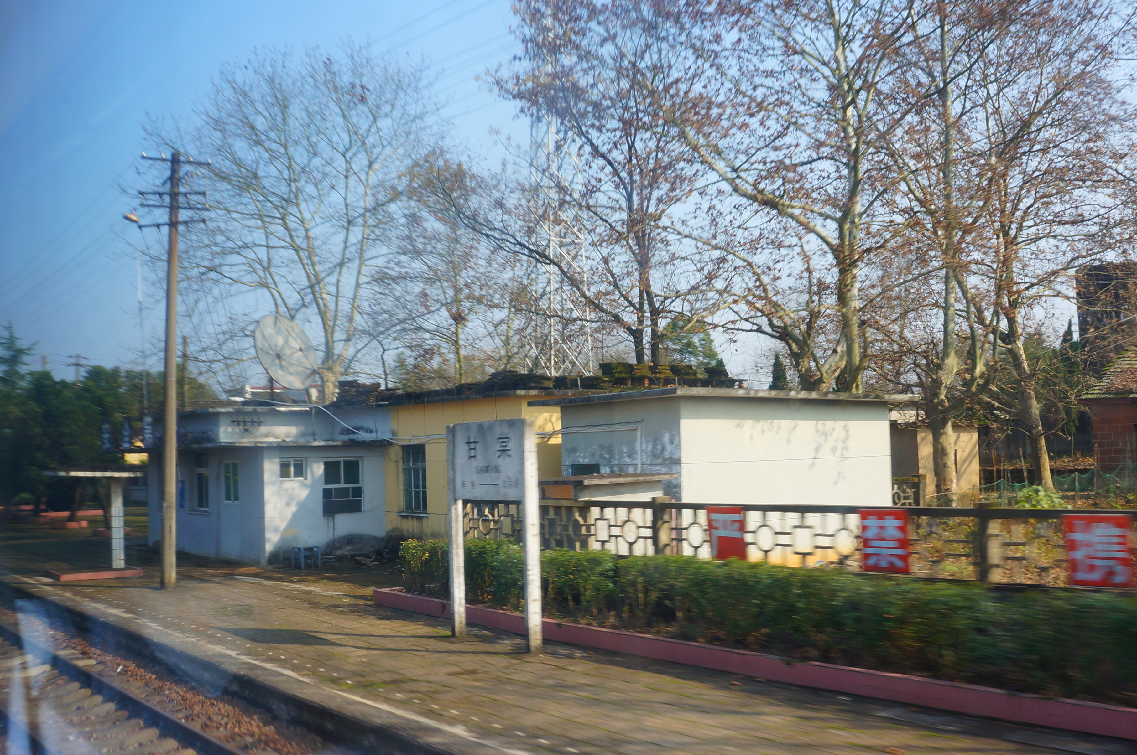 201612 Gantang Station